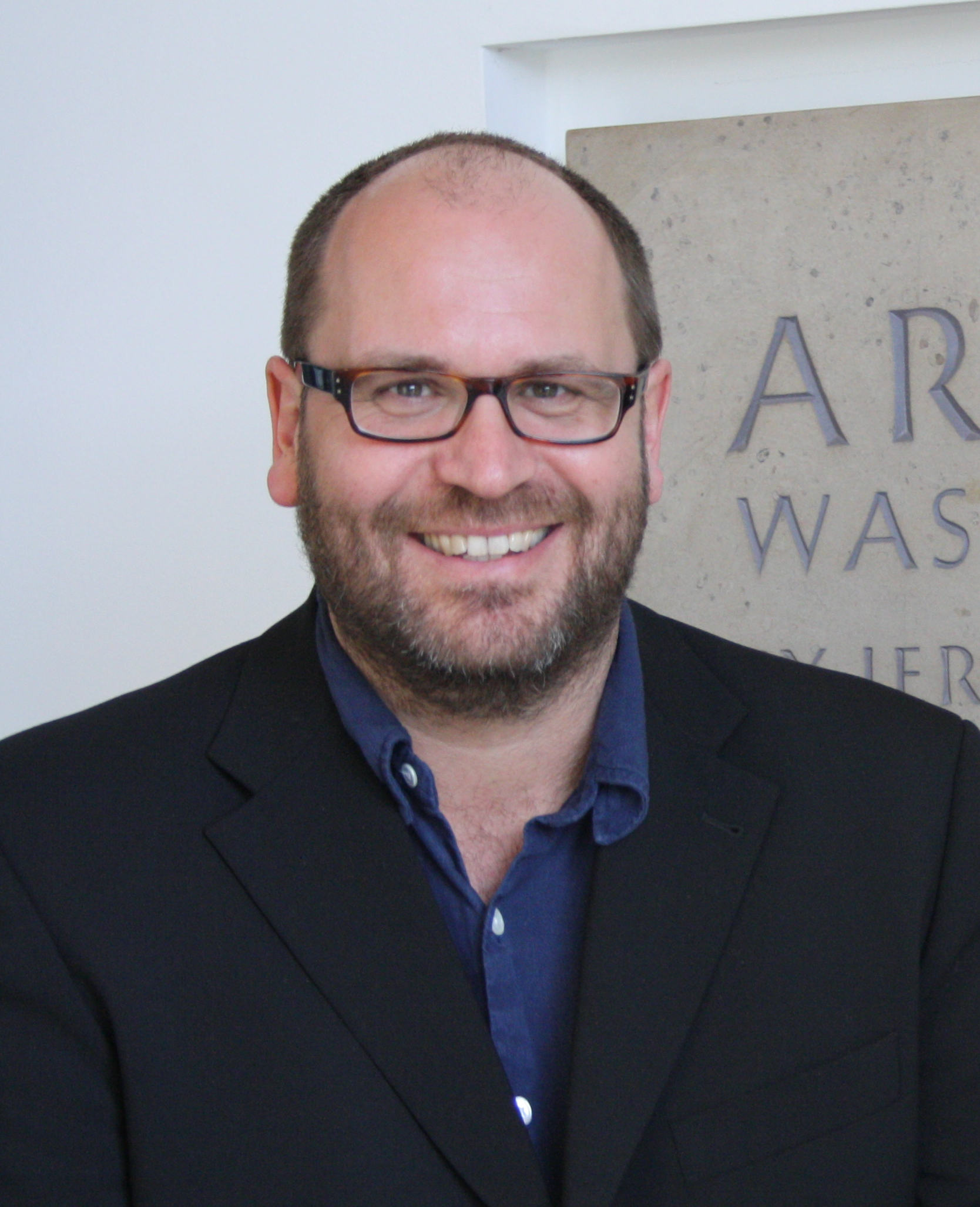 Portrait photograph of Tom Trevor at Arnolfini in Bristol (UK) October 2011